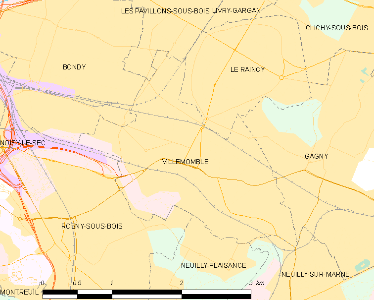 Map of French municipality Villemomble